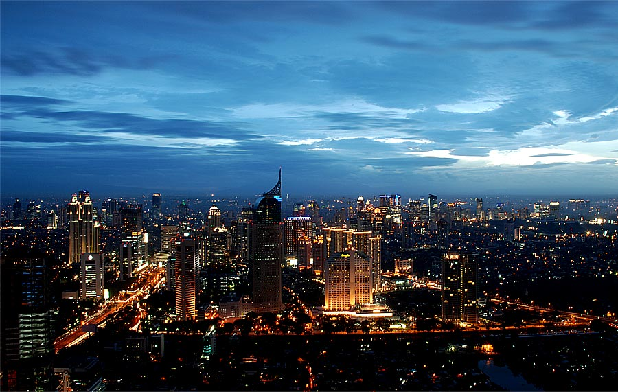 Jakarta panorama on an afternoon after the rain, taken from the top of Grand Indonesia Condominium. Taken using Nikon D80, with Nikon 18-135mm F/3.5-5.6 G ED AF-S DX lens.